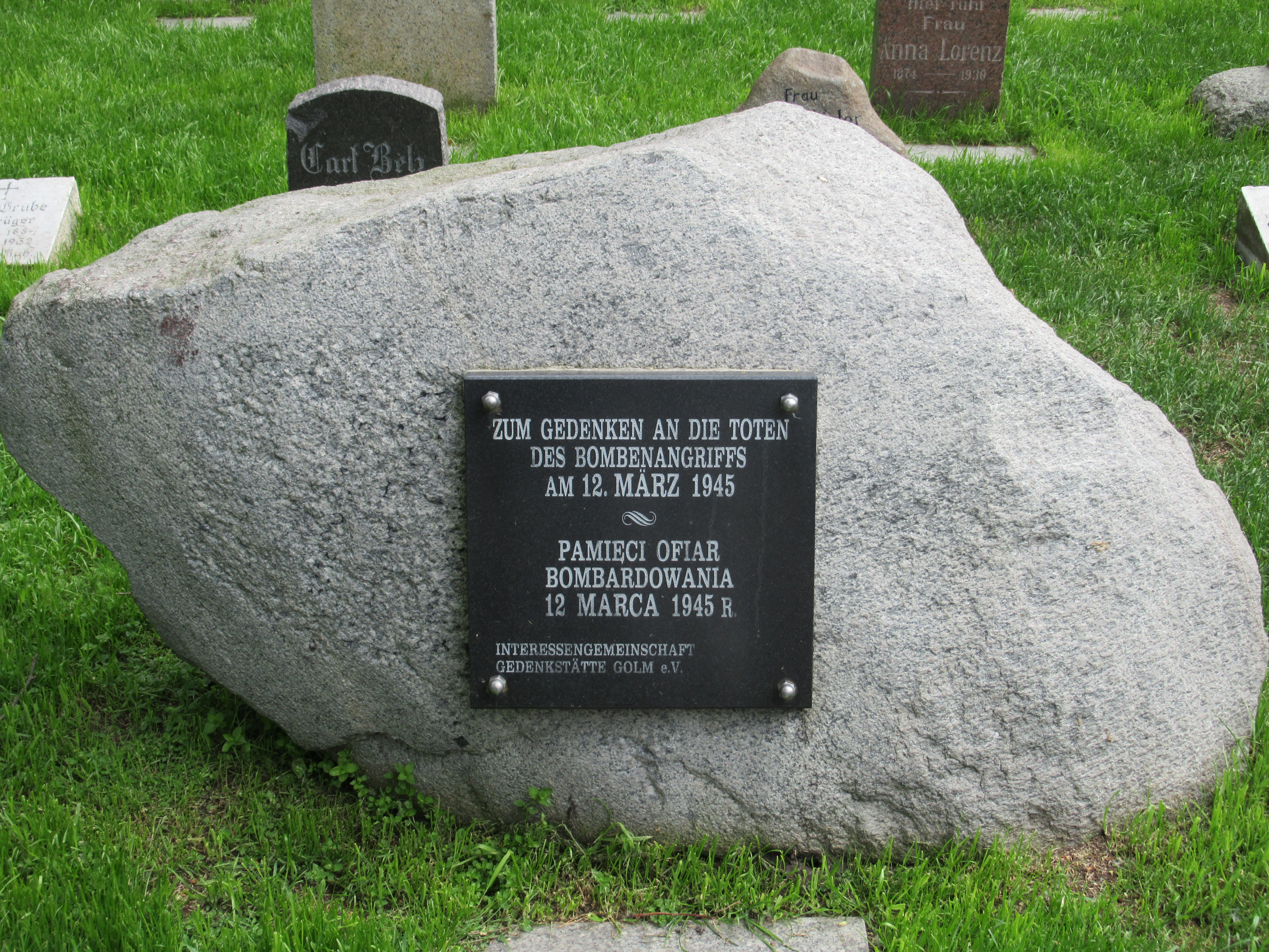 Swinemünde Cemetery Bombing Victims 1945